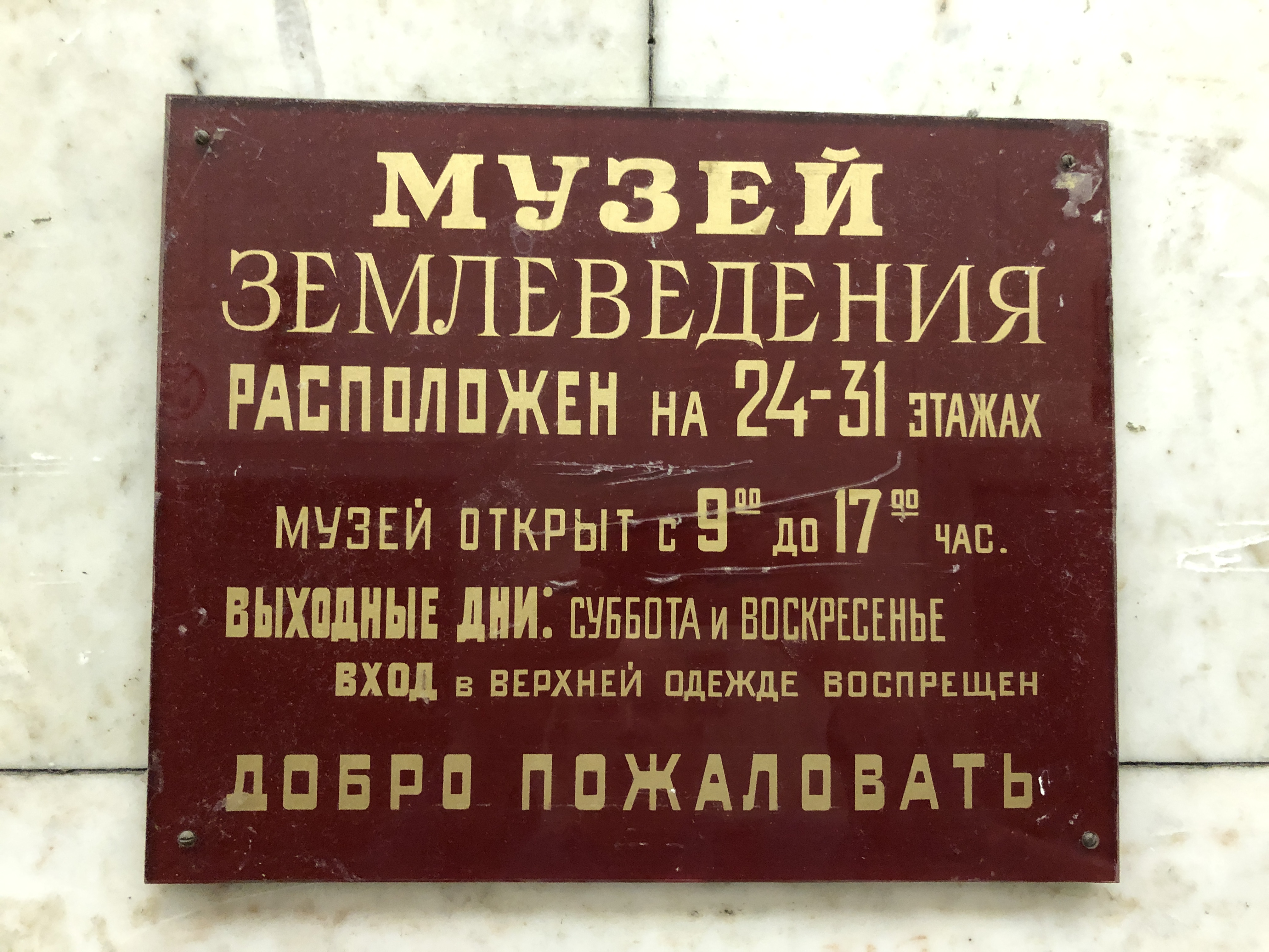 Titles in Russian